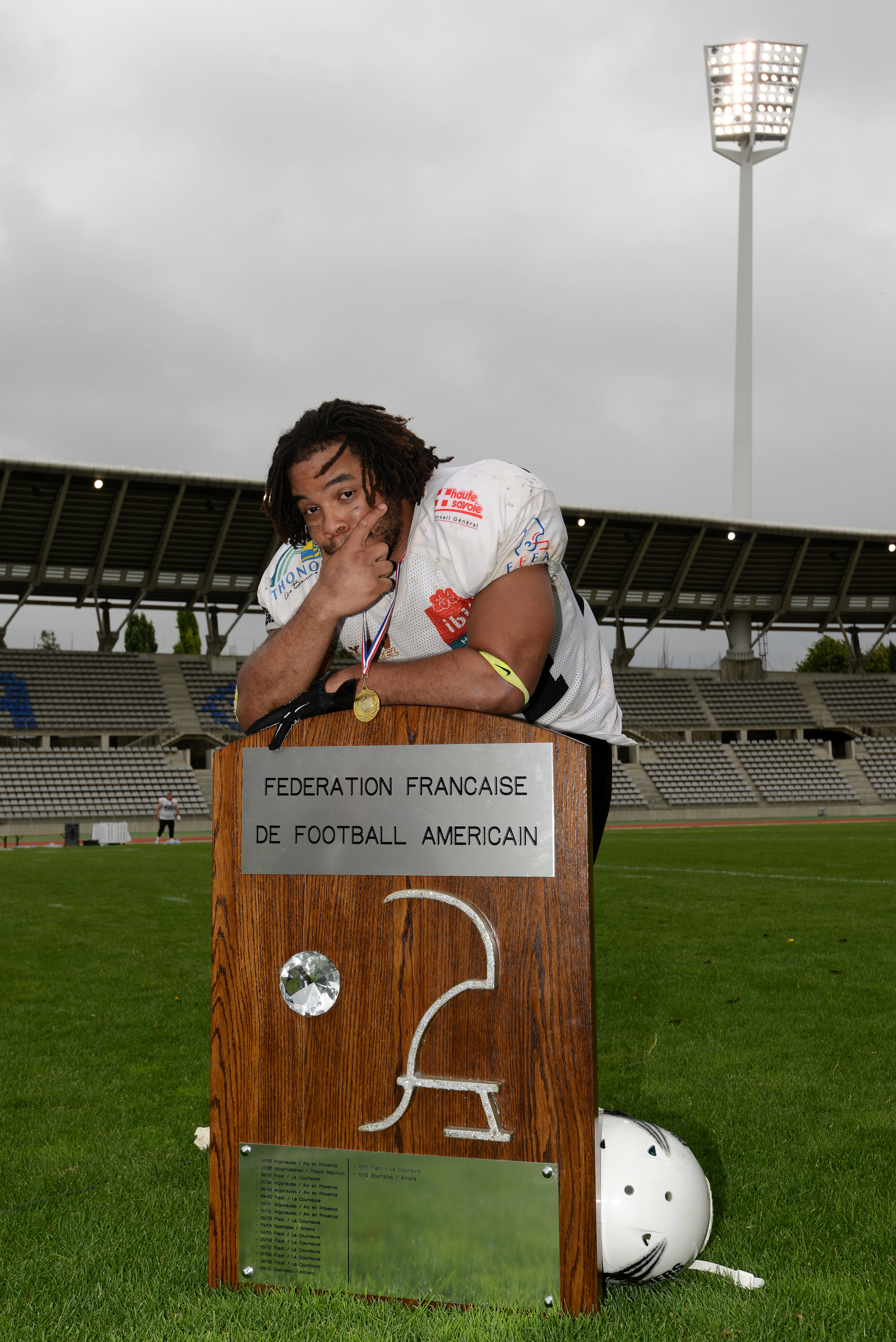 Thonon Black Panthers running back Stephen Yepmo poses with the trophy after the final of the French American Football Championship 2013 at Stade Charléty in Paris.